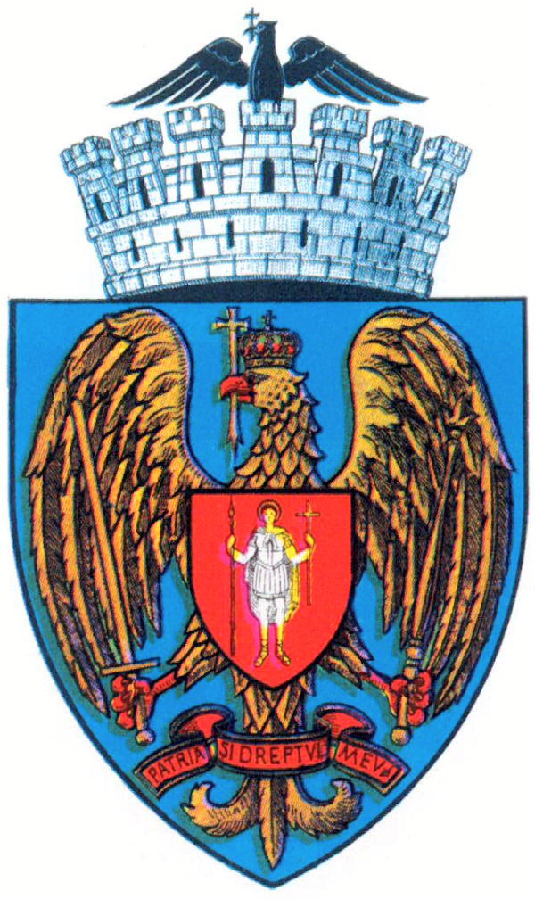 Interwar coat of arms of Bucharest, Ilfov County, Kingdom of Romania.